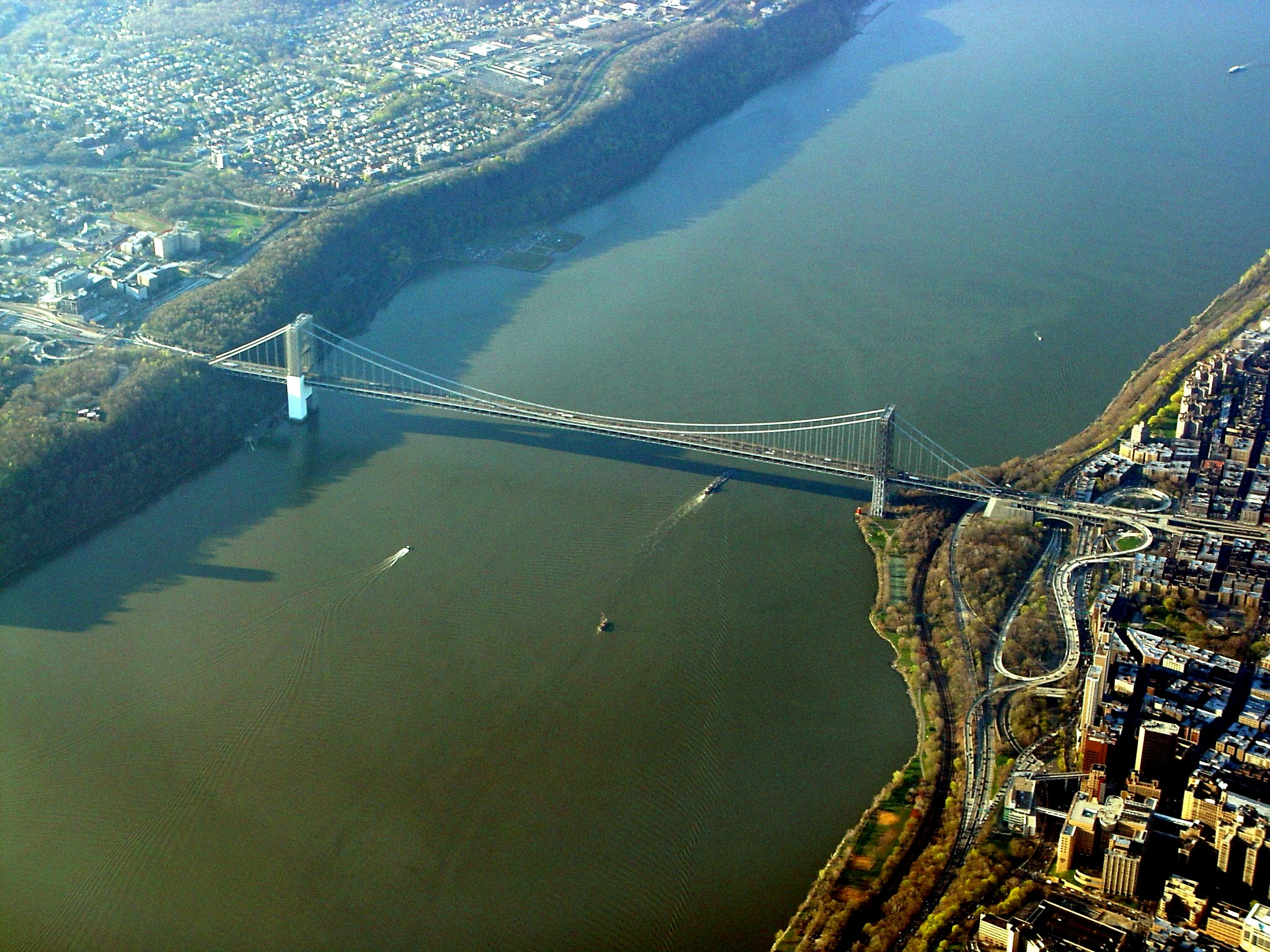 Upper New York City and the George Washington Bridge in 2003 from a flight to London from Newark